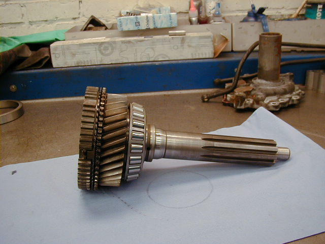 Prise as (eigen foto)